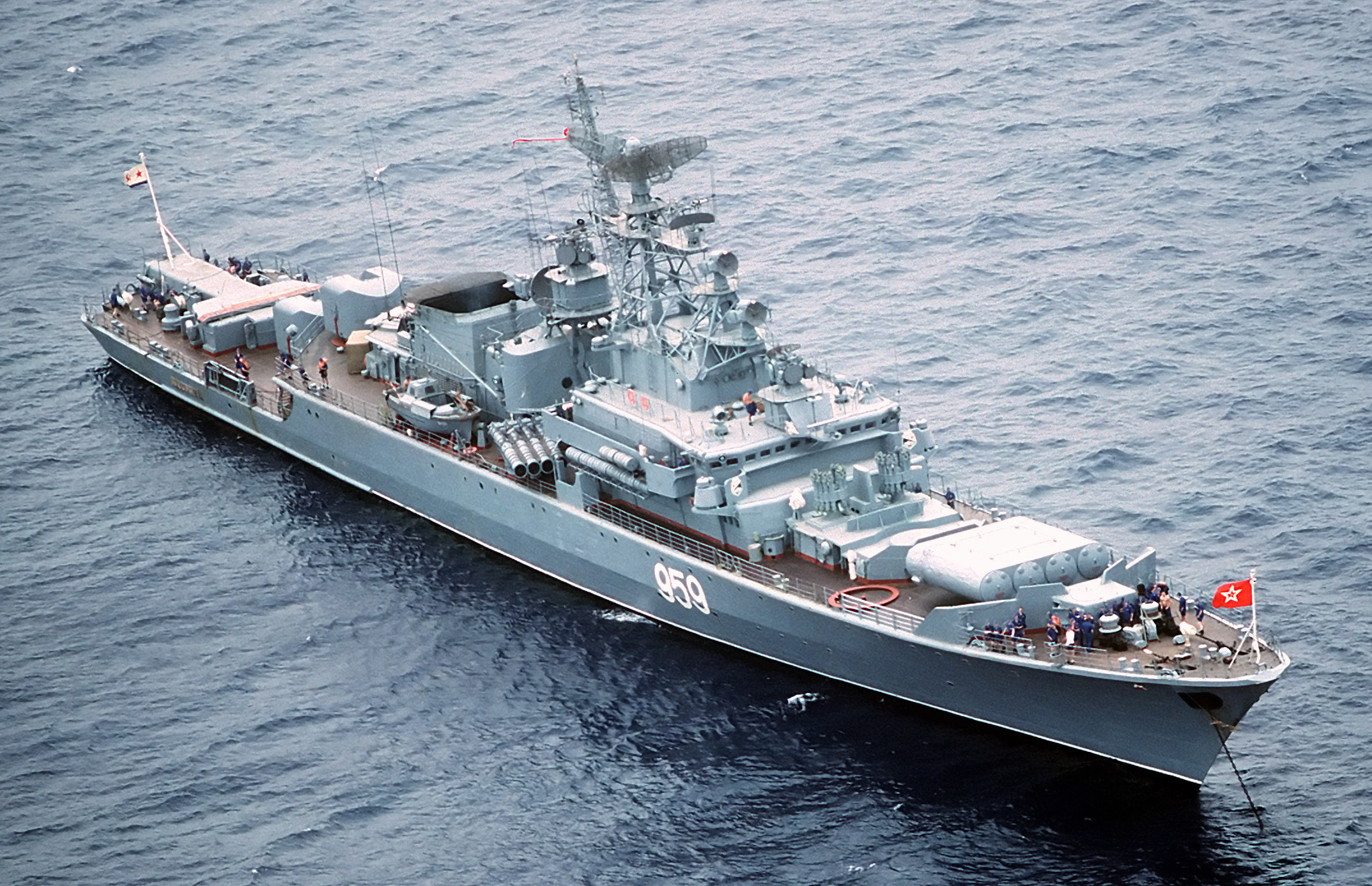 An aerial starboard bow view of the Soviet Krivak I Class guided missile frigate 959 at anchor.